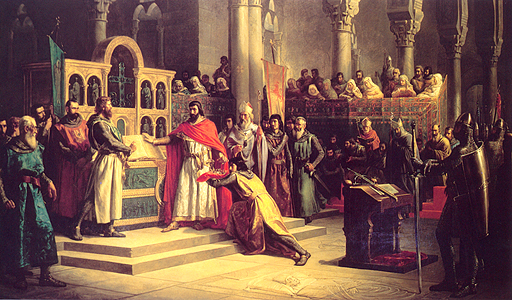 Epica-Oath of Santa Gadea, relevant to the Battle of Golpejera